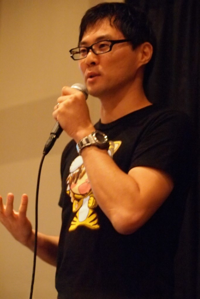 Danny Choo at Day 3, 2012 New York Comic Con.